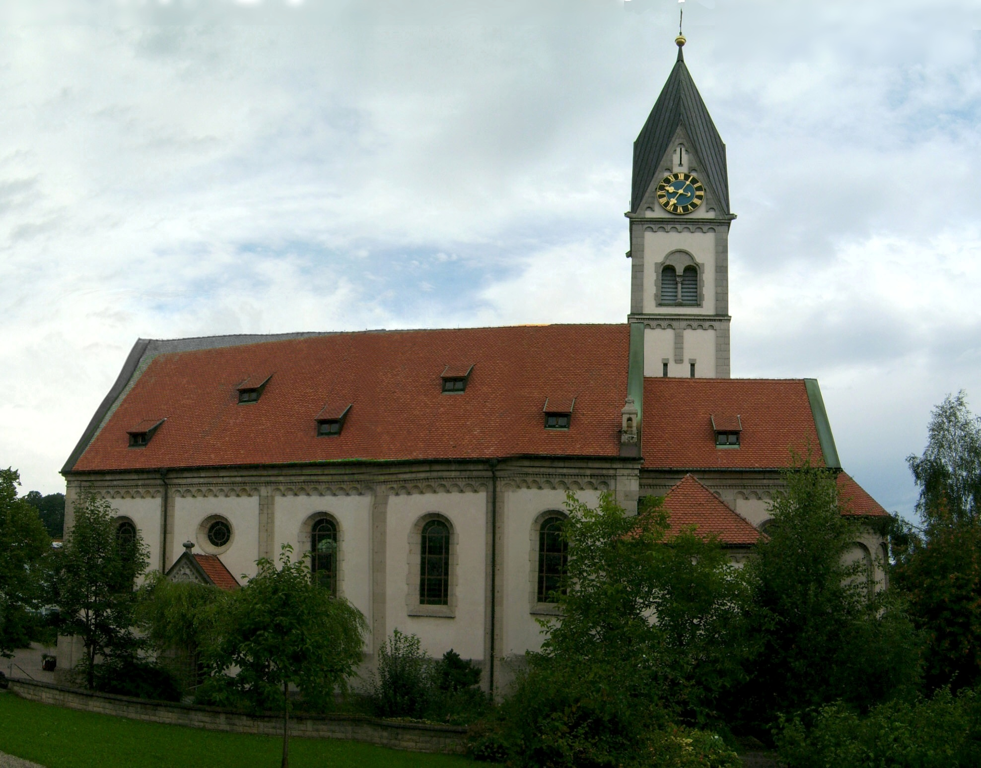 Blaichach, external view of St Martin's Parish Church from south.